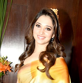 Tamannaah Bhatia attends Lakme Fashion Week 2015